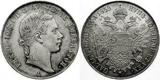 Austria. Franz Joseph. 1848-1916. AR Thaler. Vienna mint. Dated 1855. Laureate head right; A mintmark Crowned double-headed eagle with imperial arms. Davenport 17; KM 2243.1.